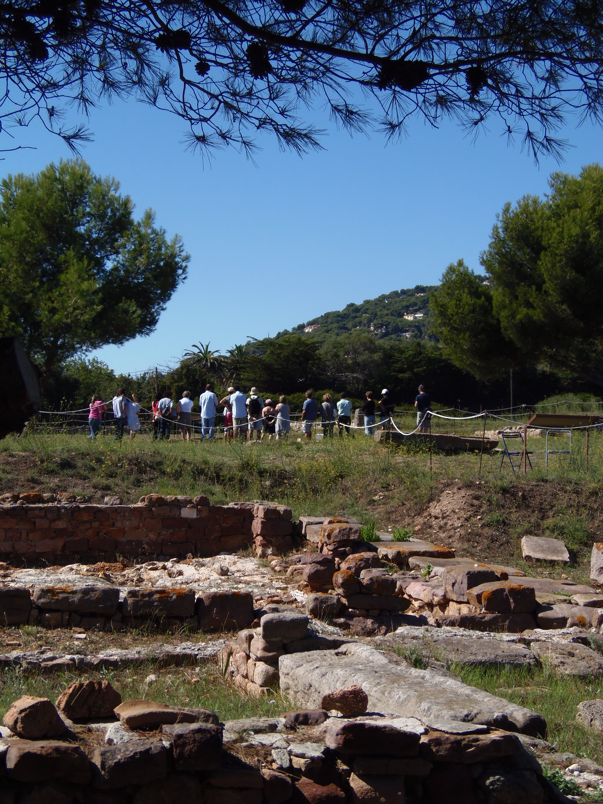 Olbia is the only site of its kind still preserved on the Méditerranean coast.